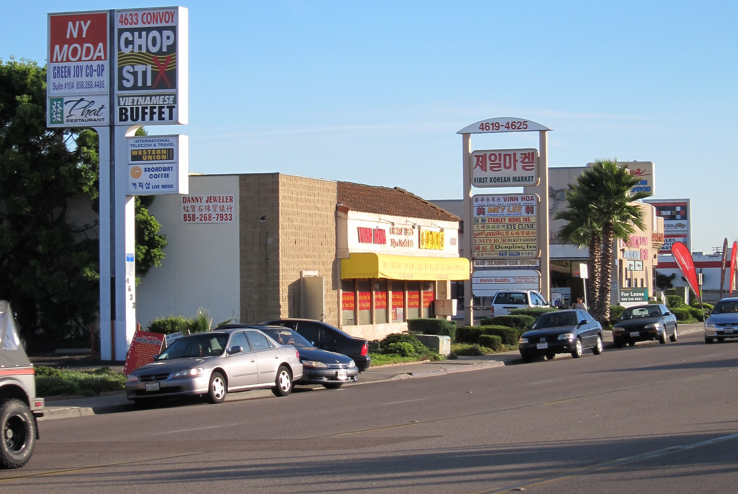 Businesses on Convoy Street in Kearney Mesa neighborhood of San Diego (between Balboa Ave. and Clairemont Mesa Ave